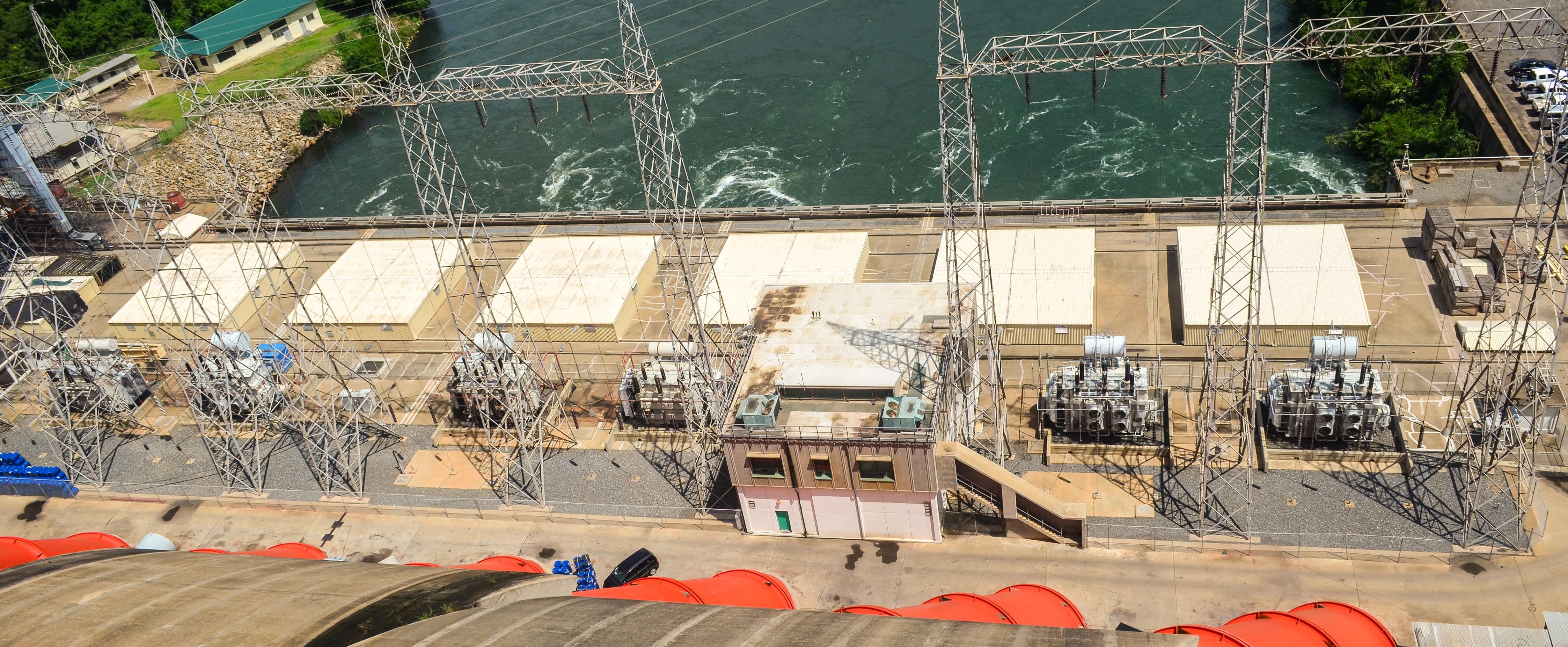 Akosombo Dam Exterior Panorama, Akosombo, Volta in Eastern Region, Ghana.